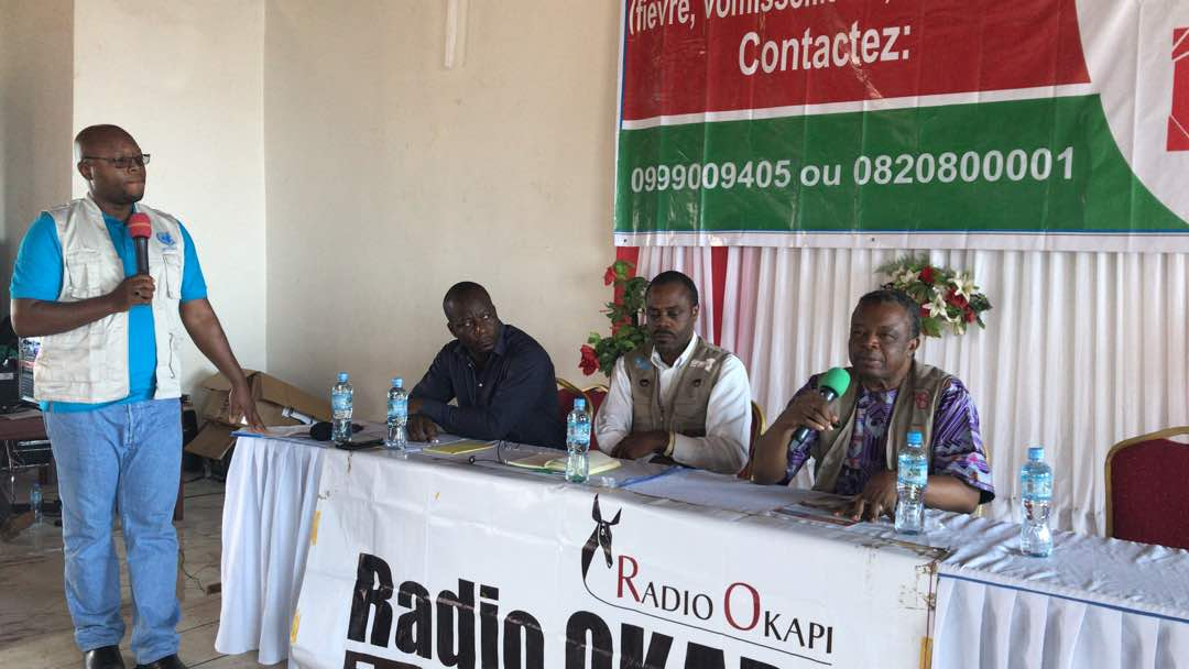 Beni, North-Kivu, DR Congo – The UN-owned Radio in the DRC, Radio Okapi, organized on September 6th, 2018 a live broadcast from Beni, where an epidemic of Ebola has been raging for more than a month. It was in the presence of the Congolese Minister of Health, Oly Ilunga, Professor Muyembe, Epidemiologist, and a crowd of guests who came to participate in this interactive program. The goal is to educate the public about the practices to be observed in order to curb the propensity of the virus in this territory. Photo MONUSCO/Aqueel Khan